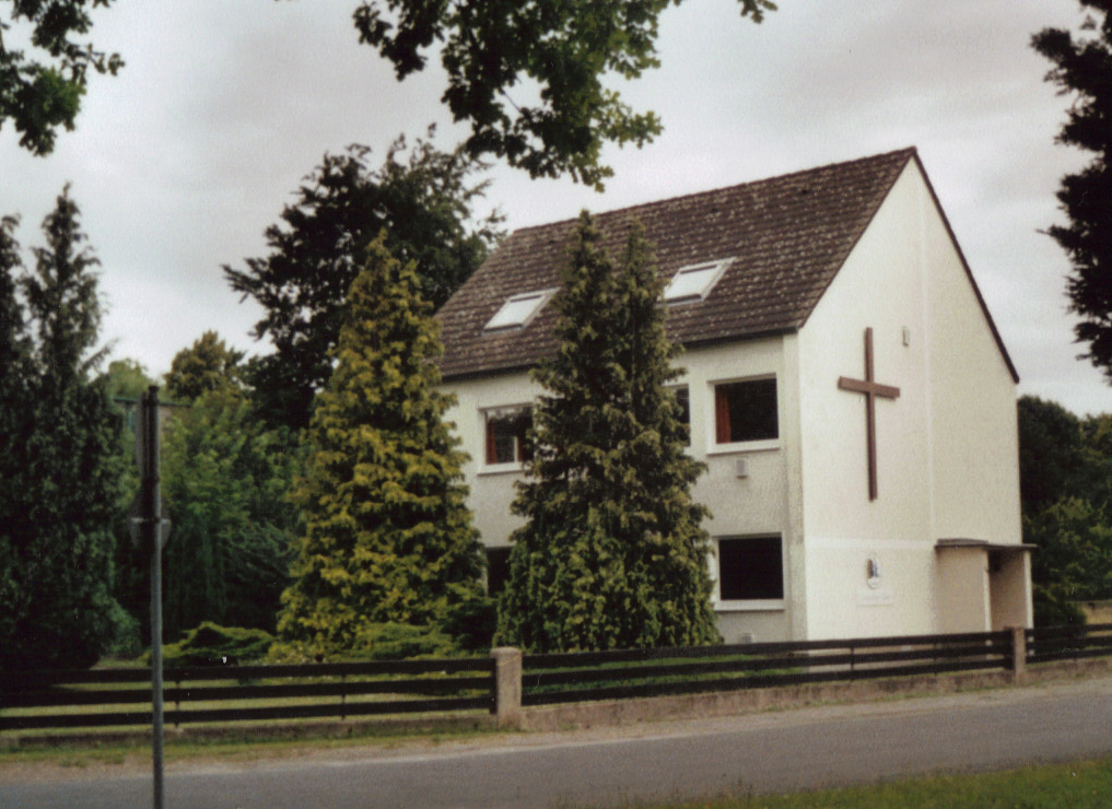 Community of Christ, Springe, Germany